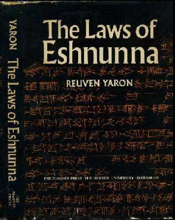 Cover of «The Laws of Eshnunna» by Reuven Yaron